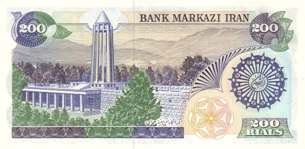 200 Rial (1981 issue) back